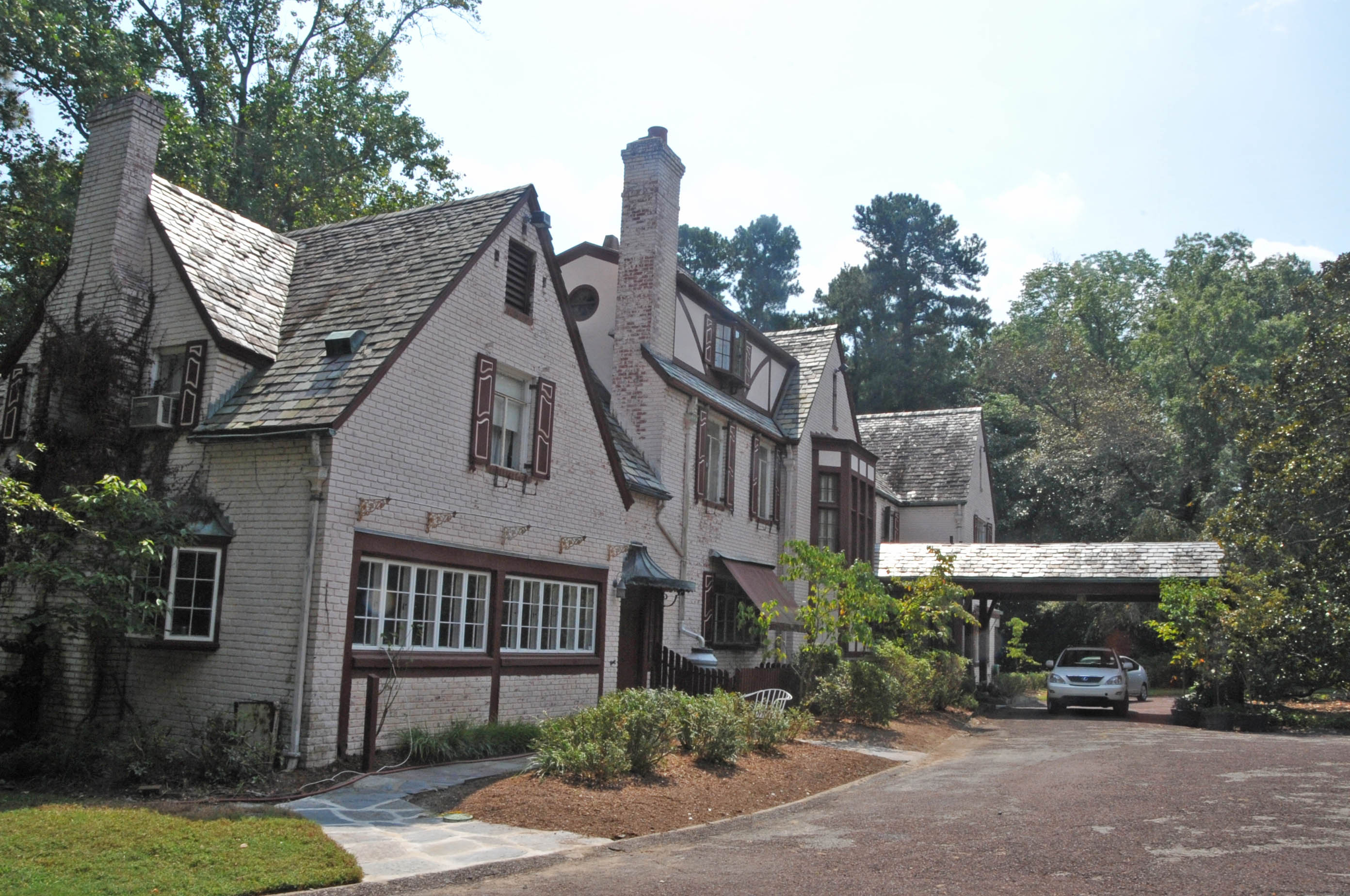 BUILT IN 1927 IN TUDOR COTTAGE STYLE. PURCHASED BY MARY DUKE BIDDLE IN 1935; SHE WAS THE DAUGHTER OF BENJAMIN DUKE AND GRANDDAUGHTER OF WASHINGTON DUKE.